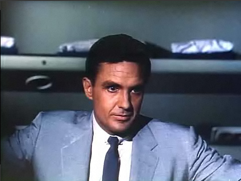 Screenshot of Robert Stack from the trailer for the film Written on the Wind